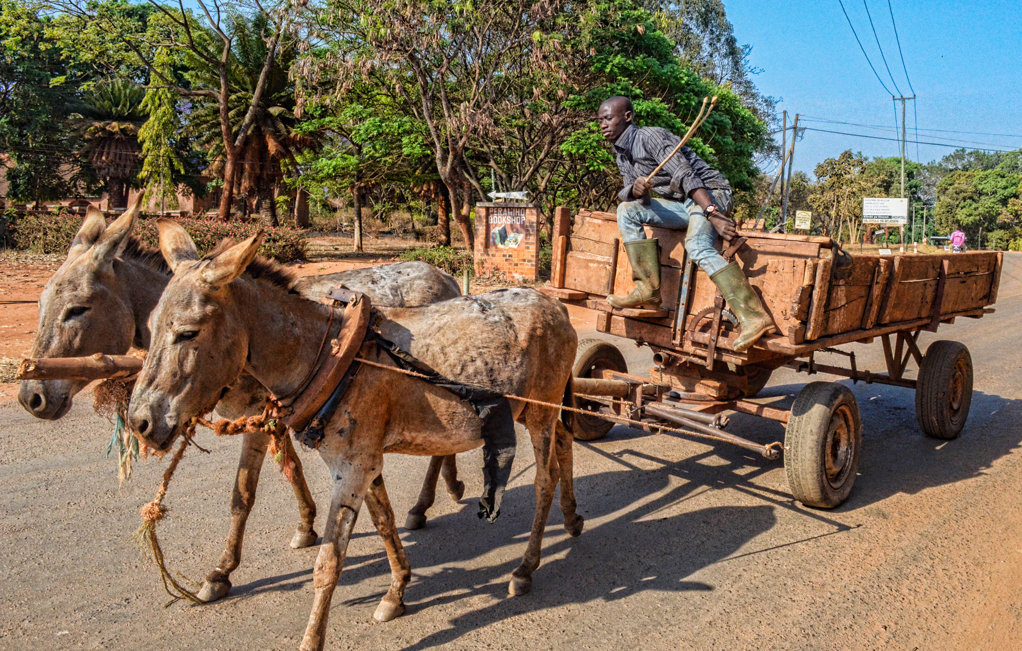 Donkeys are quite widely used mostly for freight transport along the road in Peramiho town ,Songea. This is an image with the theme "Africa on the Move or Transport" from: Tanzania